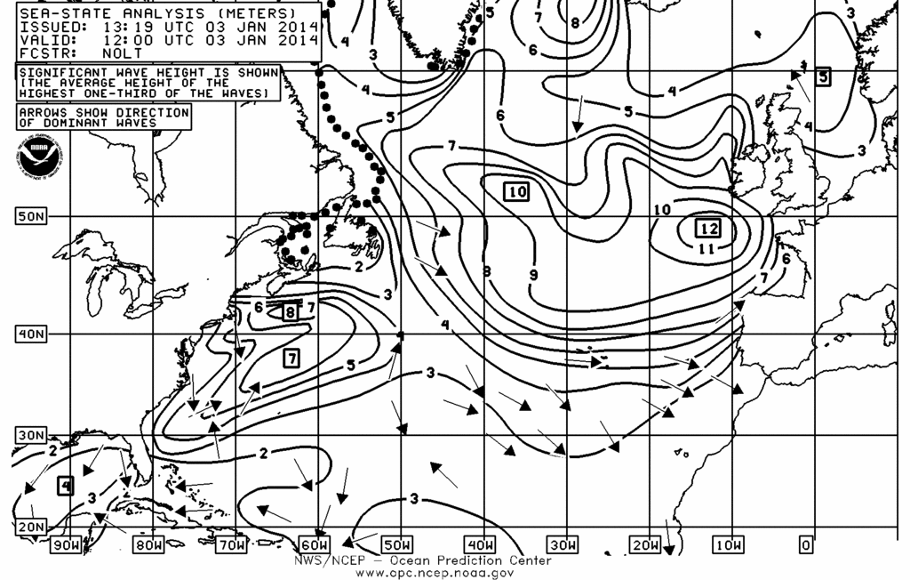 Atl.seaanal.12.2014010313